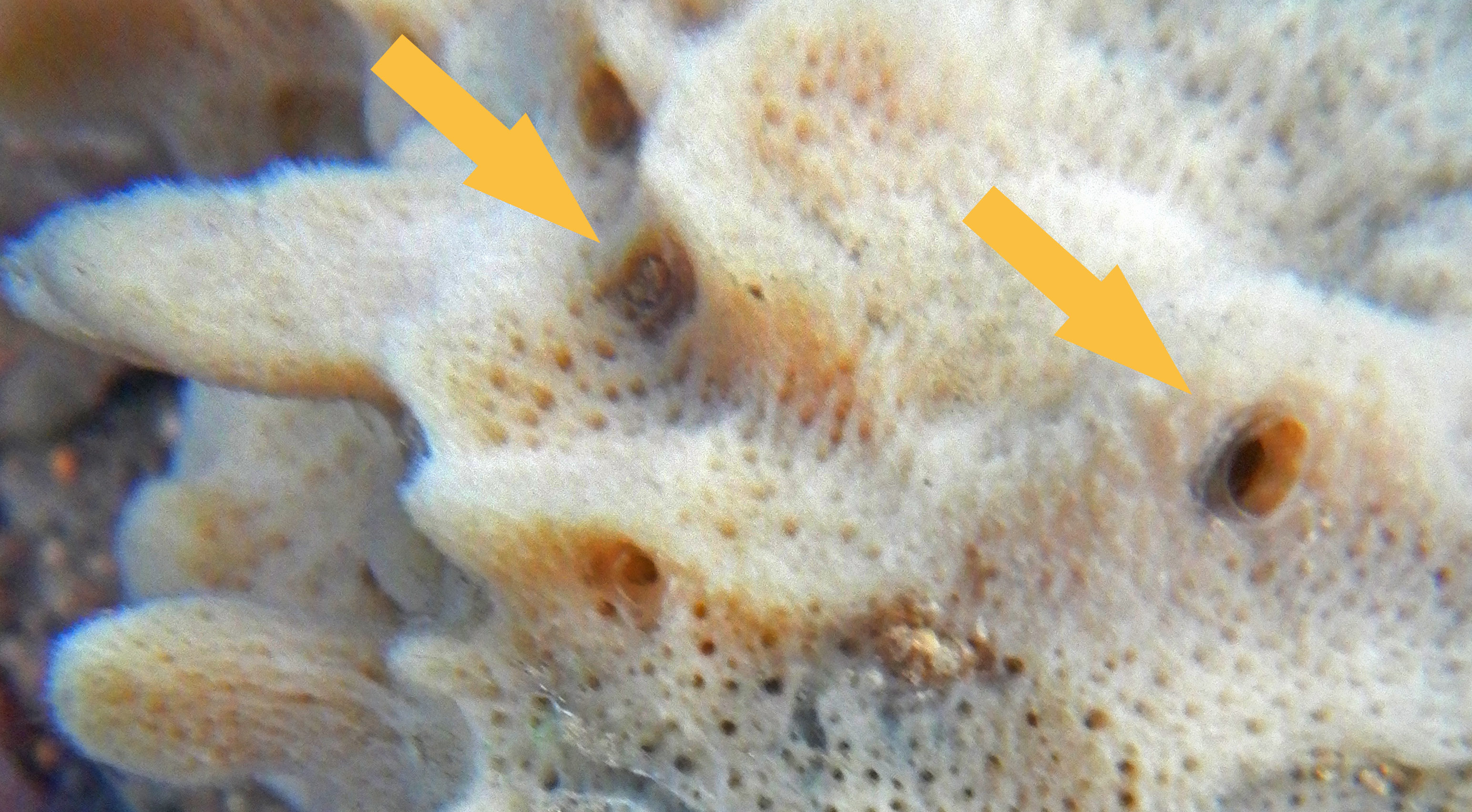 Fresh water Sponge in Authie river (in the Region Hauts-de-France, Northern France). Note: Despite several rainy periods in the hours and days before this photo the water remained clear, the sponges help to filter the water, but not in winter for some species like spongilla lacustris.